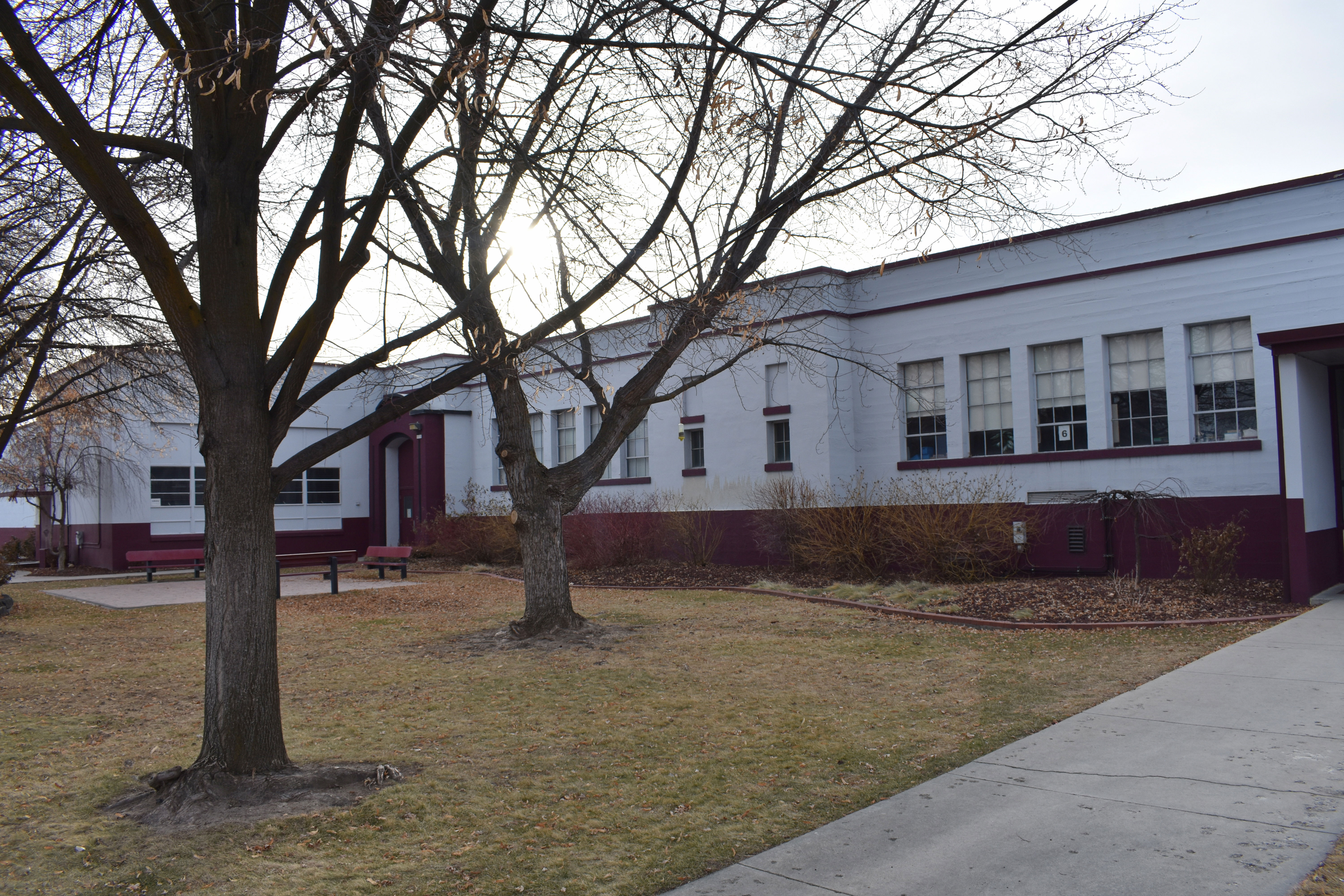 Pierce Park Elementary School (1938) in Boise, Idaho, is listed on the National Register of Historic Places.